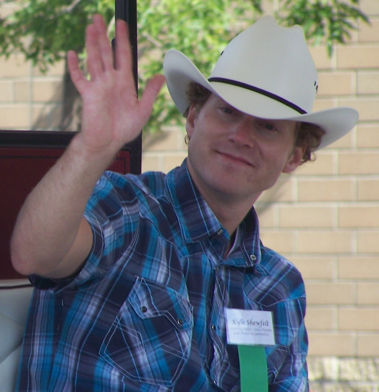 Kyle Shewfelt in the 2009 Calgary Stampede Parade. This image was cropped from the original.